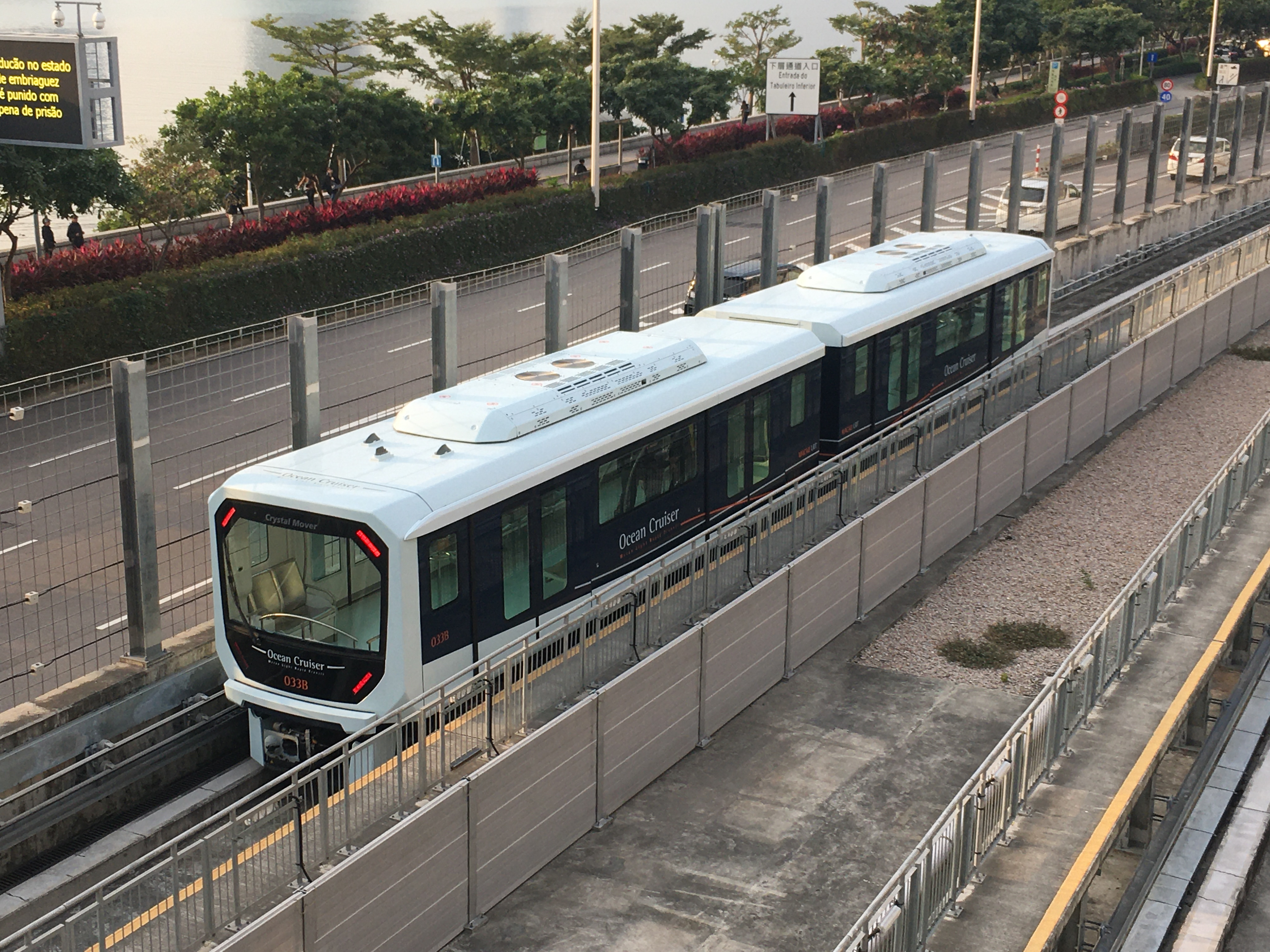 中文（香港）: This photo is taken in Ocean Garden.